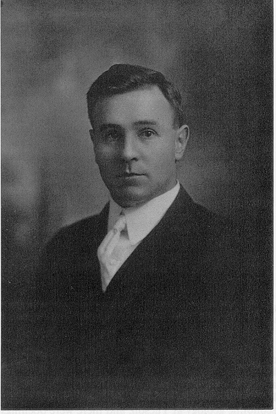 Graduation photograph of Norman Levi Bowen, from Queen's University, Kingston, Ontario, Canada.